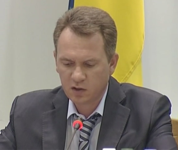 Mykhaylo Okhendovsky, Ukrainian lawyer, Head of the Central Election Commission of Ukraine